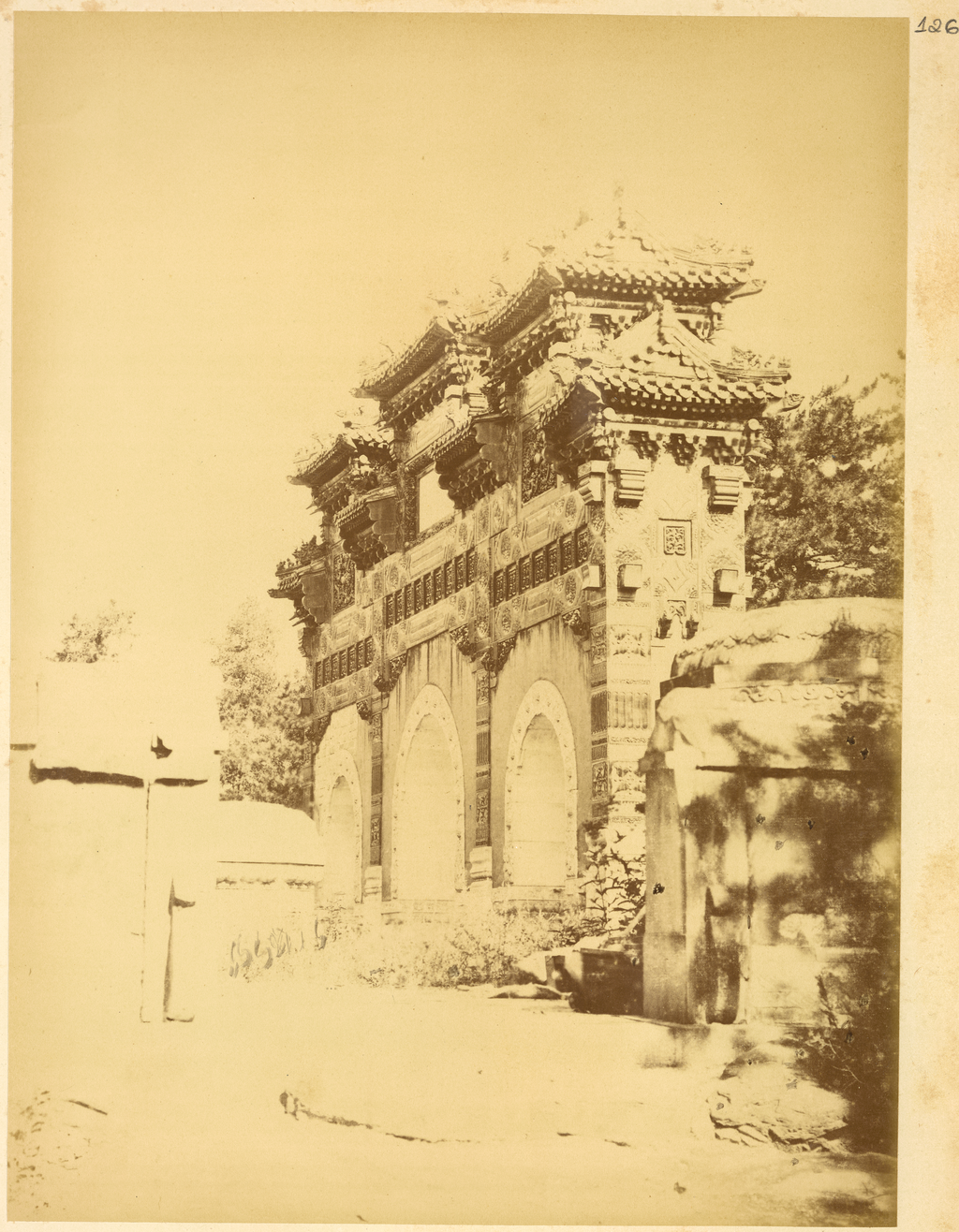 In 1874-75, the Russian government sent a research and trading mission to China to seek out new overland routes to the Chinese market, report on prospects for increased commerce and locations for consulates and factories, and gather information about the Dungan Revolt then raging in parts of western China. Led by Lieutenant Colonel Iulian A. Sosnovskii of the army General Staff, the nine-man mission included a topographer, Captain Matusovskii; a scientific officer, Dr. Pavel Iakovlevich Piasetskii; Chinese and Russian interpreters; three non-commissioned Cossack soldiers; and the mission photographer, Adolf Erazmovich Boiarskii. The mission proceeded from Saint Petersburg to Shanghai via Ulan Bator (Mongolia), Beijing, and Tianjin, and then followed a route along the Yangtze River, along the Great Silk Road through the Hami oasis, to Lake Zaysan, back to Russia. Boiarskii took some 200 photographs, which constitute a unique resource for the study of China in this period. Most of the photographs are included in this album, which later became part of the Thereza Christina Maria Collection assembled by Emperor Pedro II of Brazil and given by him to the National Library of Brazil. Arches; Architectural decorations and ornaments; Gardens; Memory of the World; Royal gardens